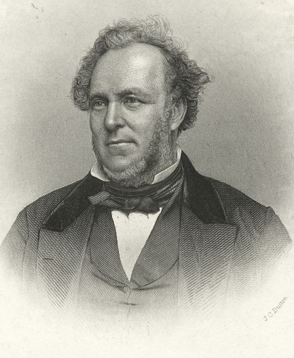 Frontispiece of Park Benjamin, Sr. (1809–1864)